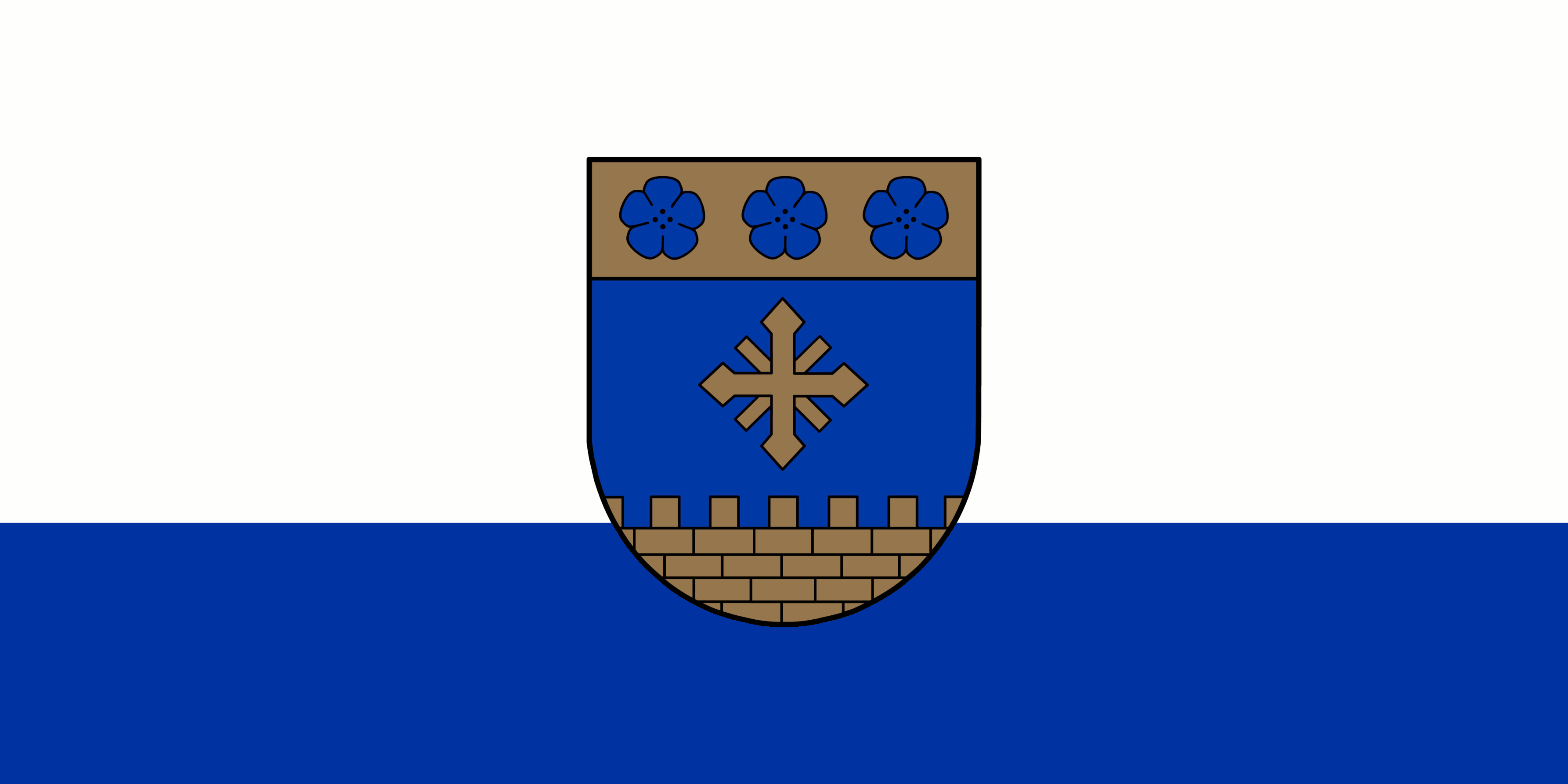 flag of Viļaka Municipality, Latvia. The flag was adopted by the municipal council on 26 May 2011.